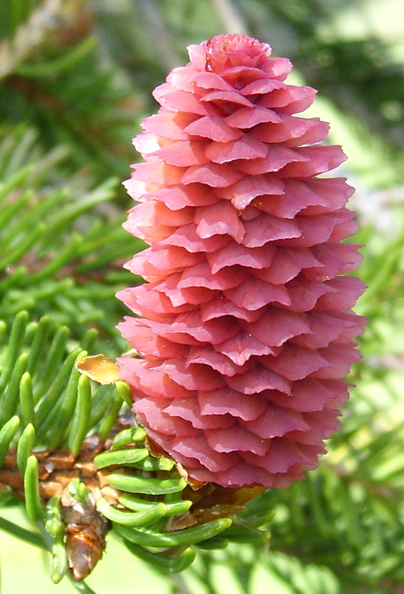 female cone/flower of Picea abies